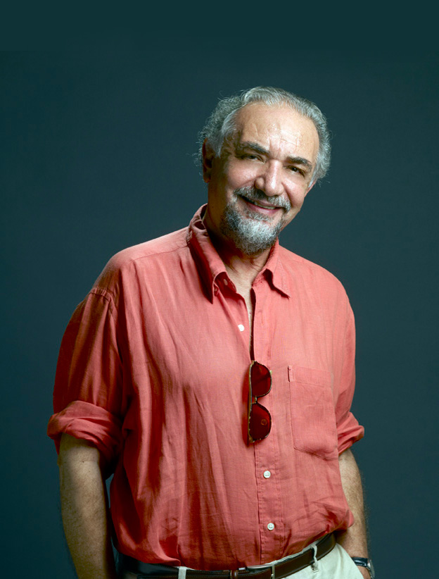 Mino la Franca's picture